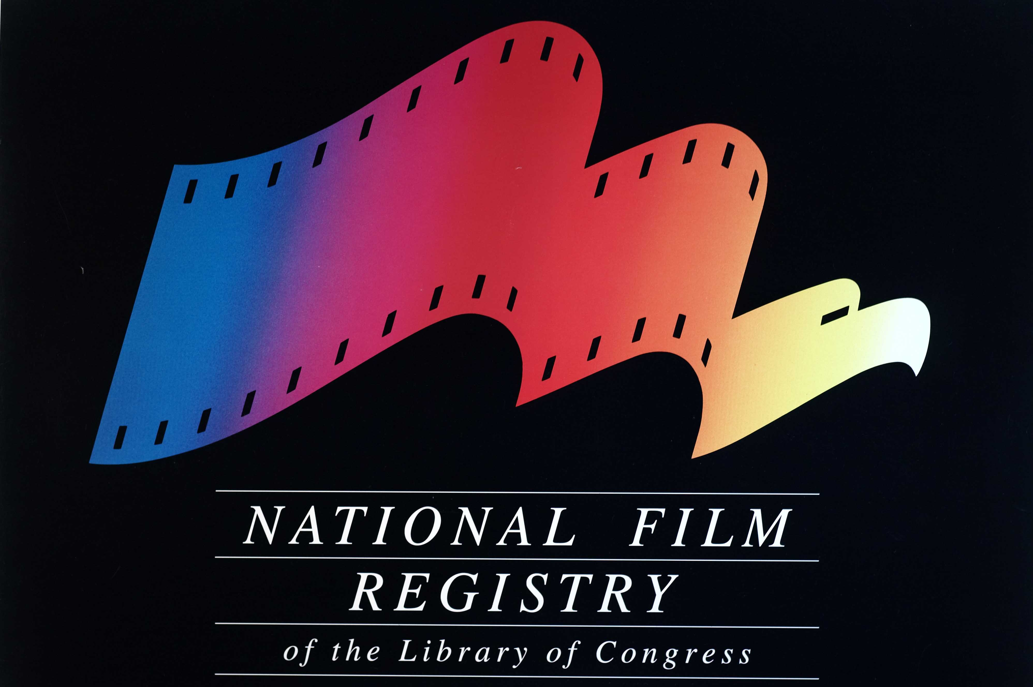 four-color National Film Registry Logo on black background